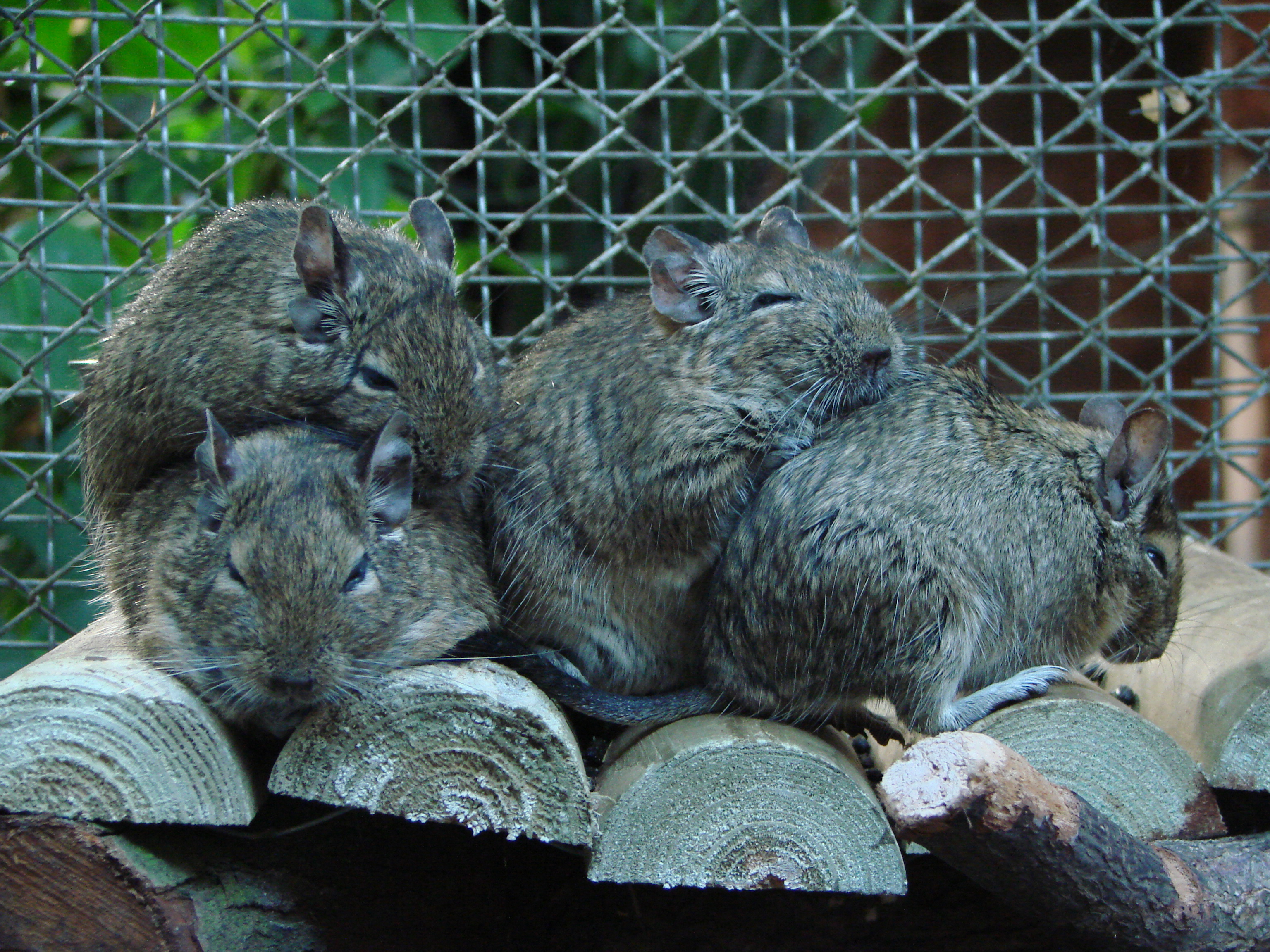 Animal species: Degu (Wrocław zoo)